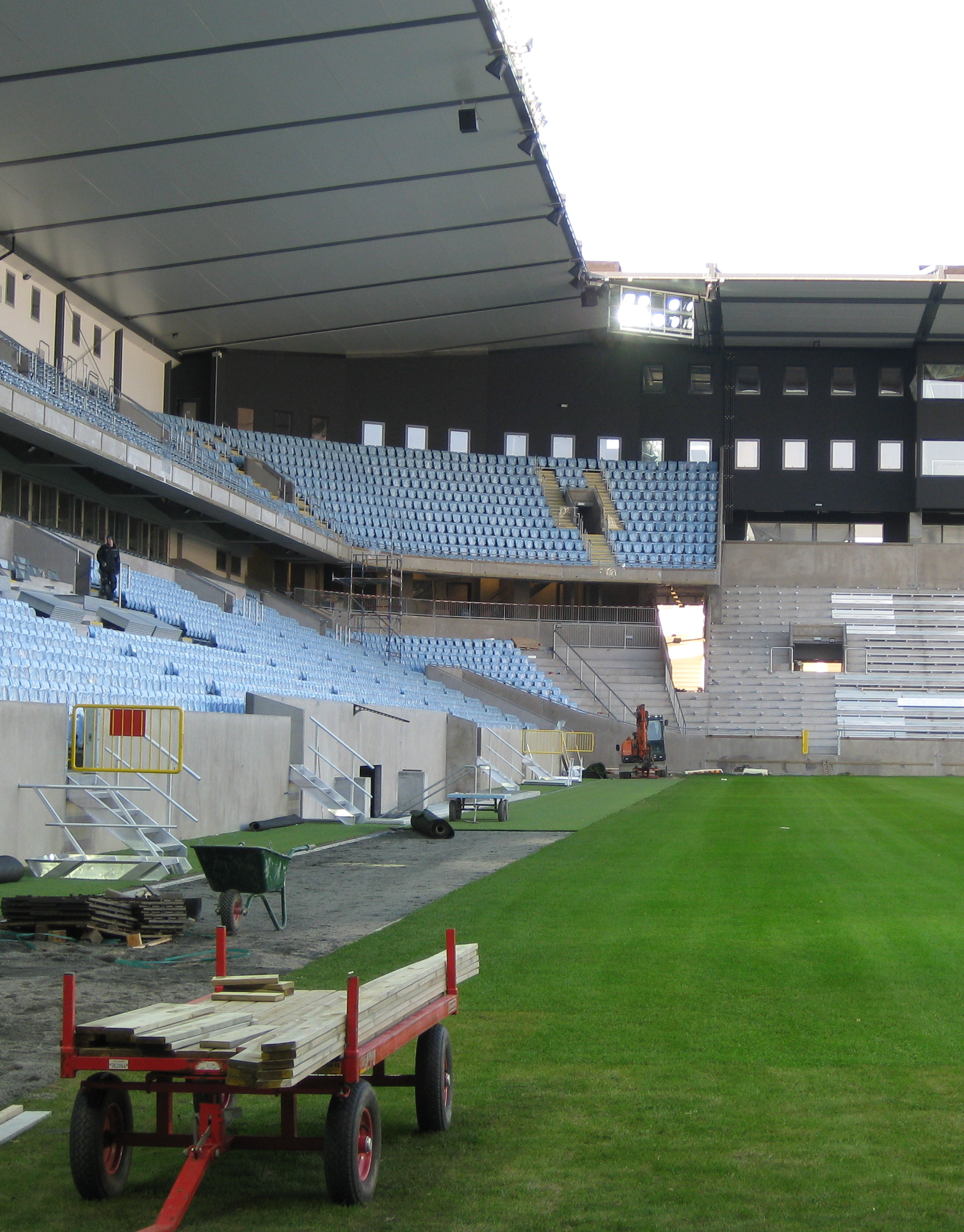 Inside Swedbank Stadion in Malmö, Sweden. Building in progress.